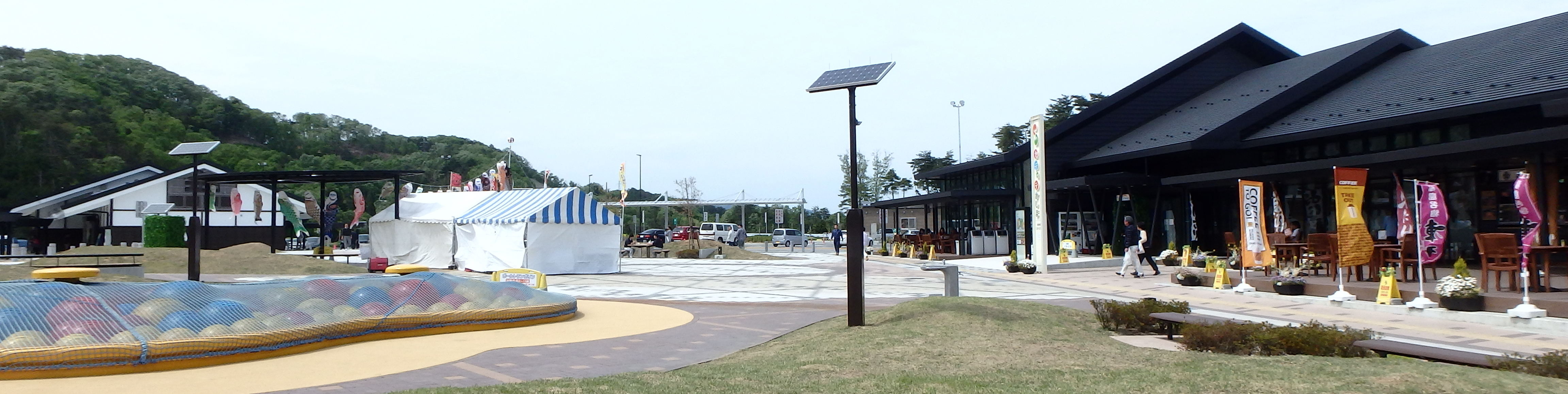 Minamisōma Kashima Service Area,Fukushima prefecture,Japan